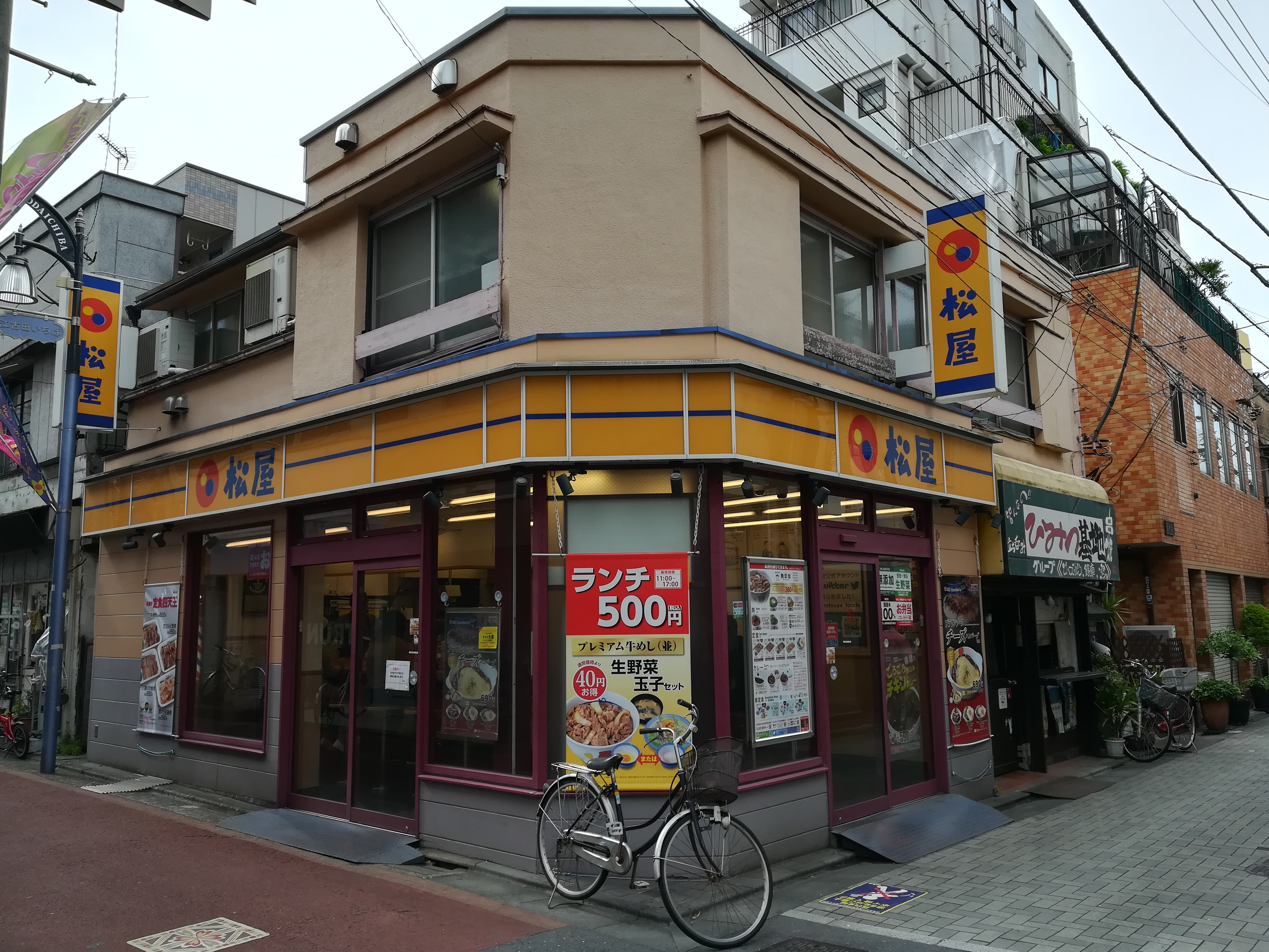 Matsuya Ekoda store.